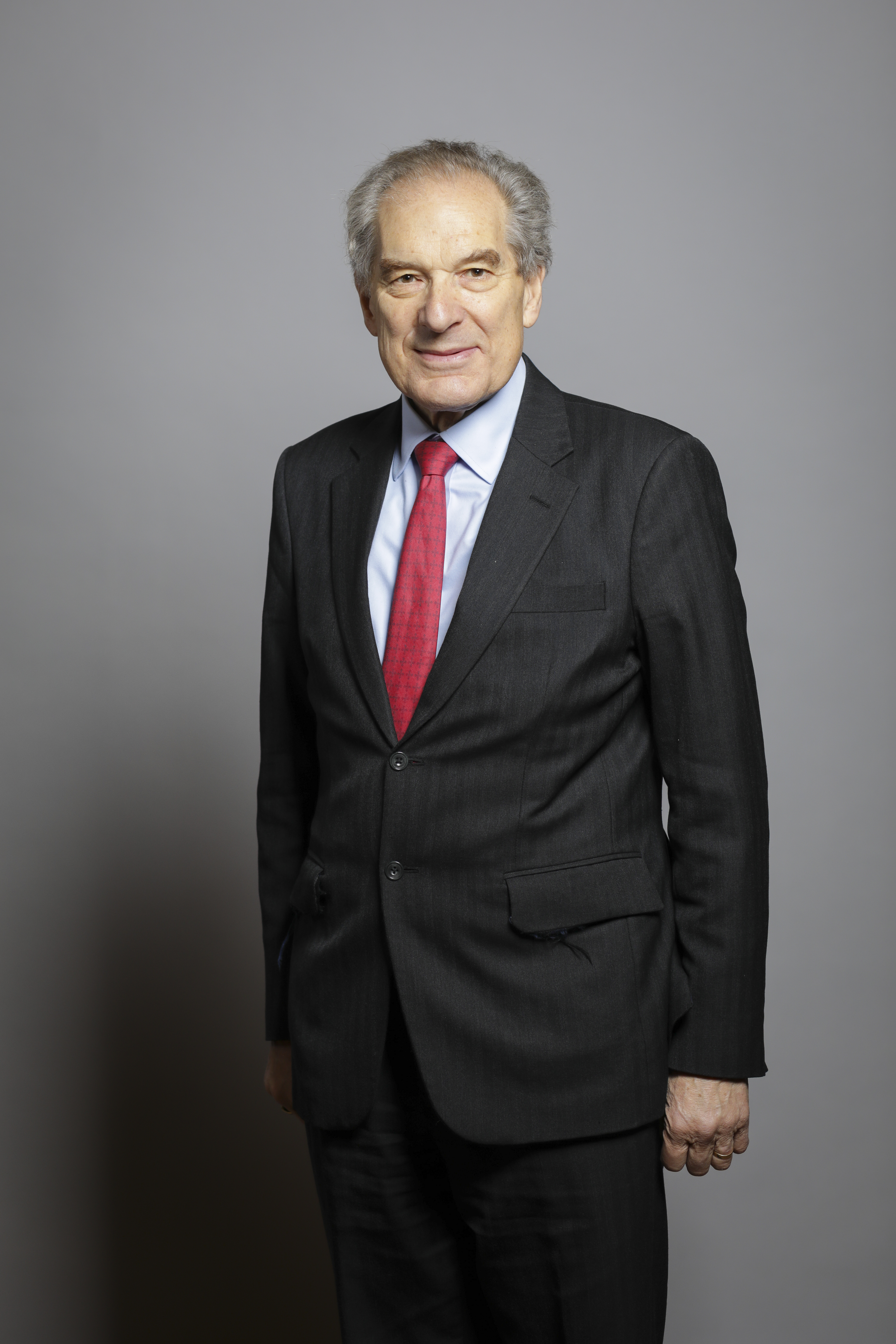 Official portrait of Lord Mance Full sized portrait of Lord Mance